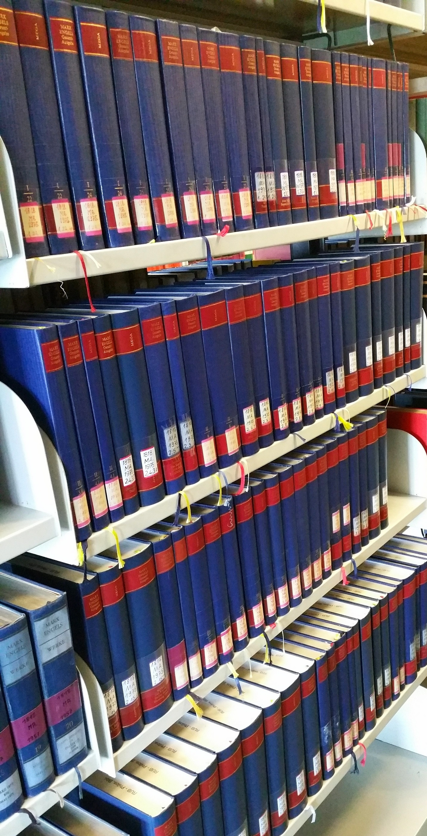 Marx-Engels-Gesamtausgabe (MEGA2) in a library.